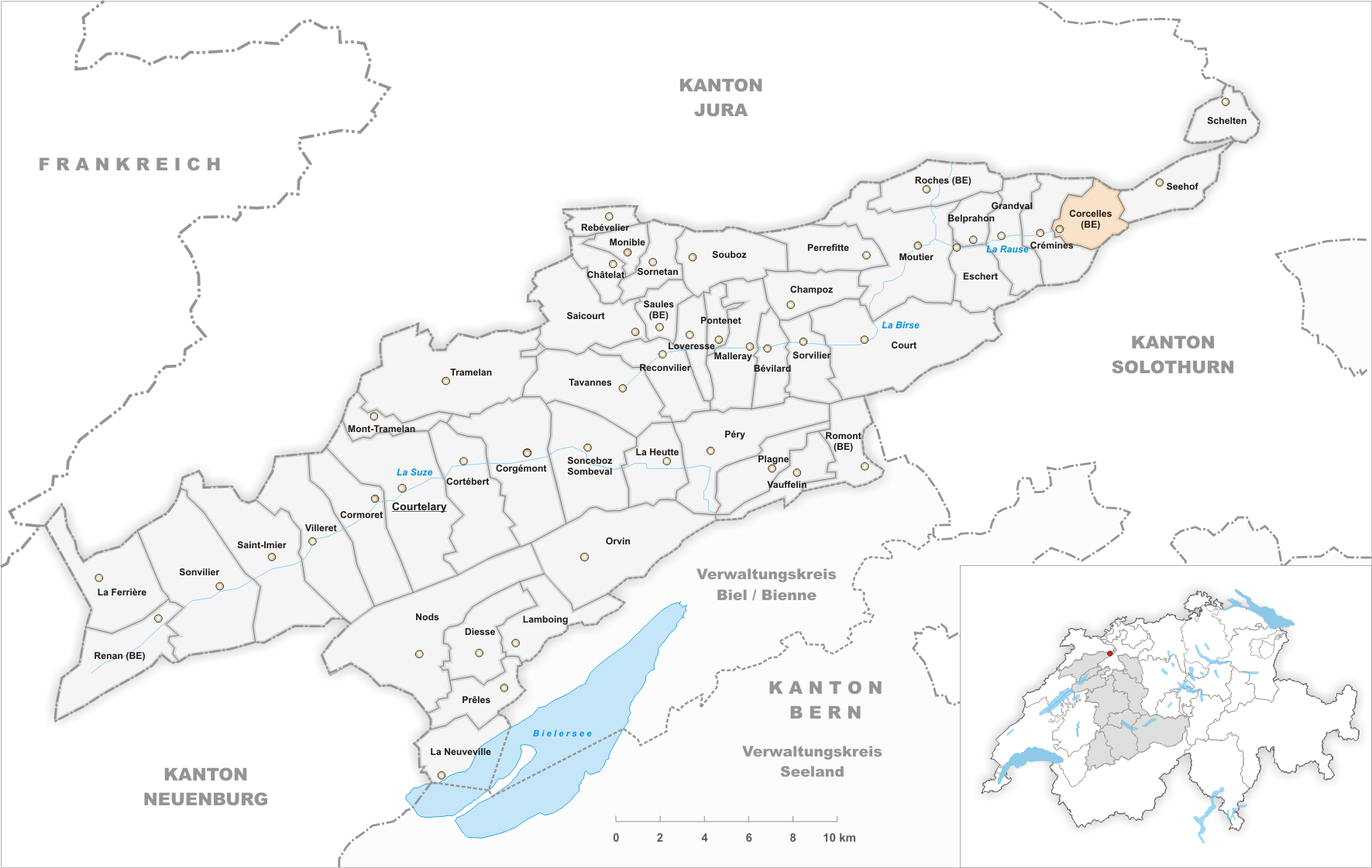 Municipality Corcelles